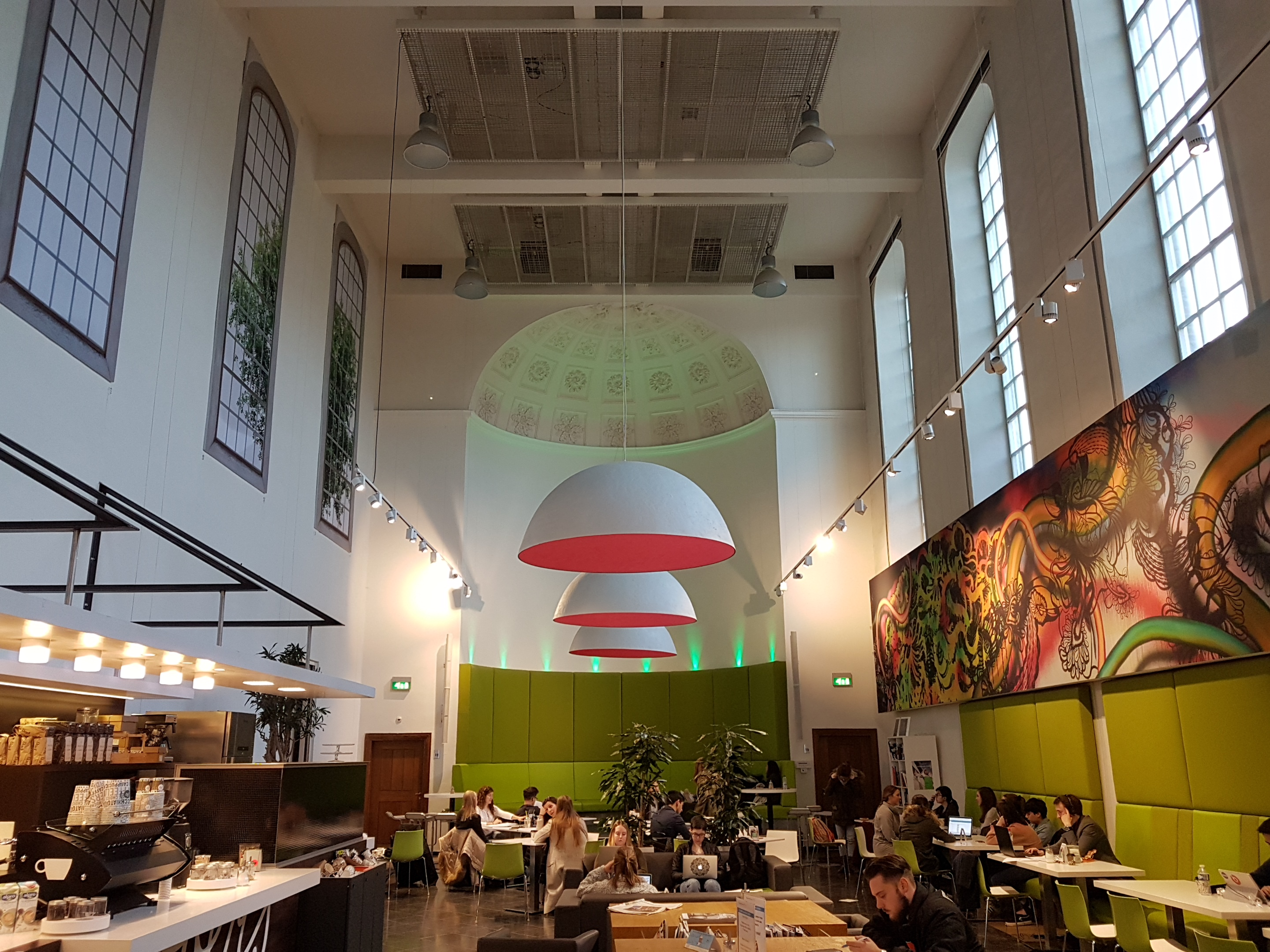 Interior view of the Bonnefanten Church in Maastricht, Netherlands. The former nunnery of the Order of Sepulchrine Canonesses was dissolved in 1796. It served many purposes and is now the University of Maastricht's Student Service Centre.